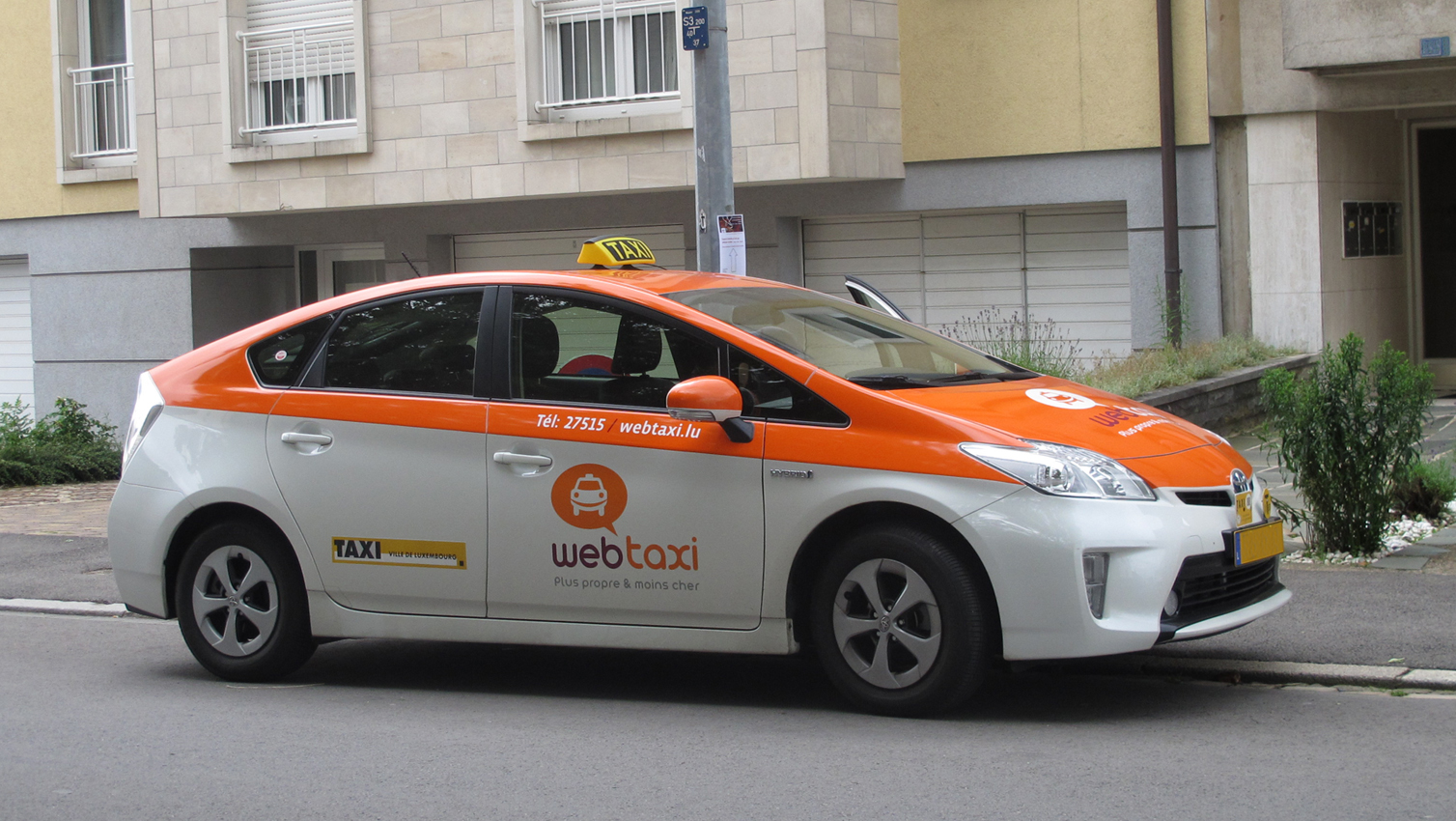 New Webtaxi car in Luxembourg city 2012